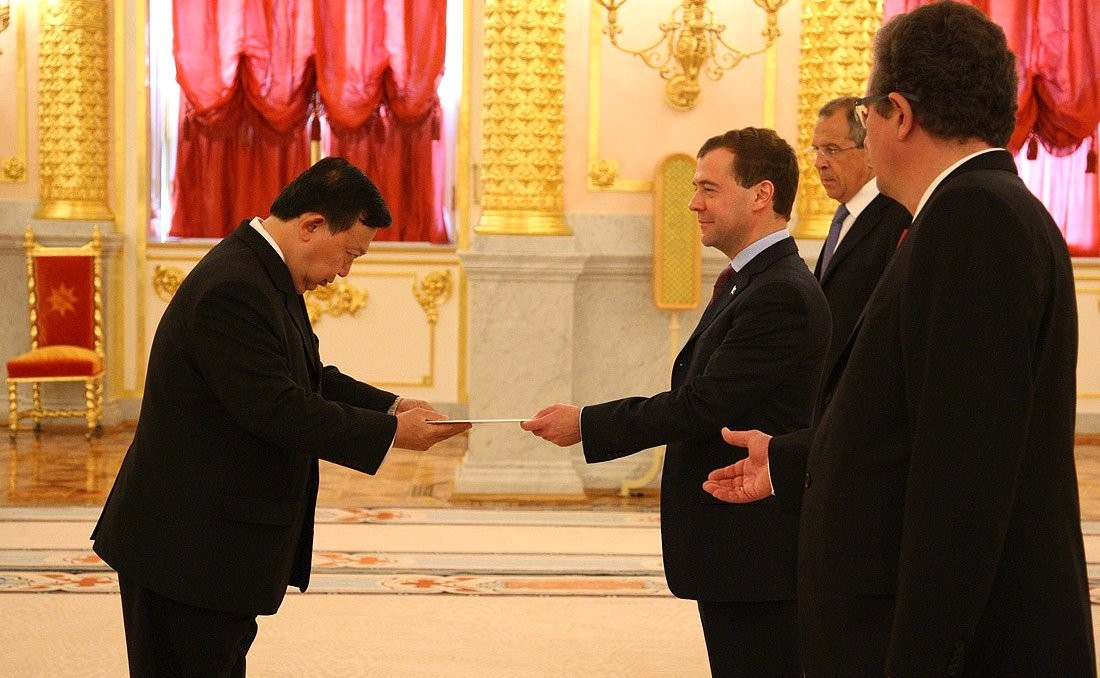 Presentation by foreign ambassadors of their letters of credence. Dmitry Medvedev receives a letter of credence from Ambassador of the Kingdom of Thailand Chalermpol Thanchitt.